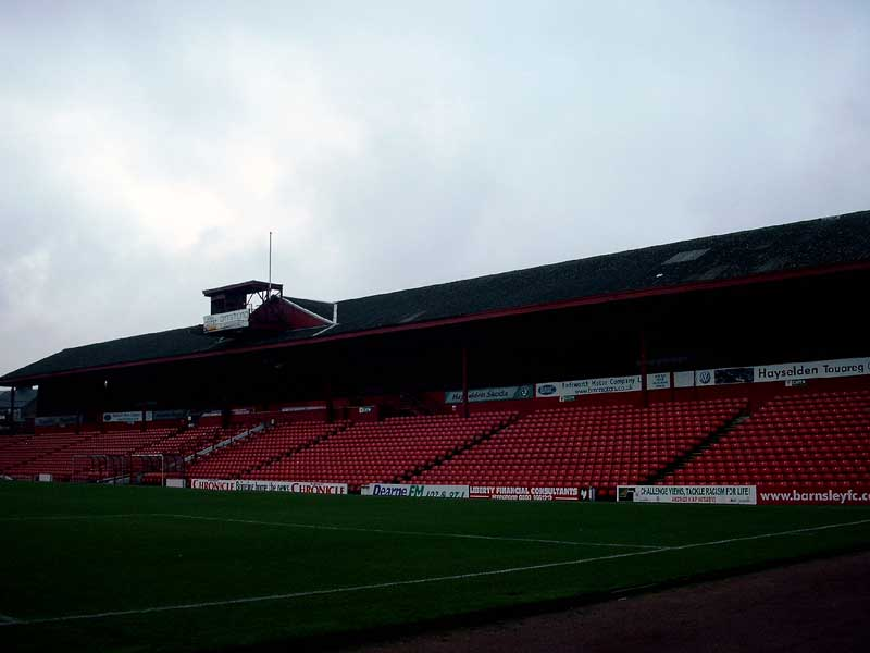 Author: Jack Higgins. Created 2003, Photo taken inside Oakwell Ground with digital camara. This photo is free to use by anyone.